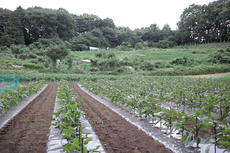 Keisen University Education Farm, Tokyo, Japan